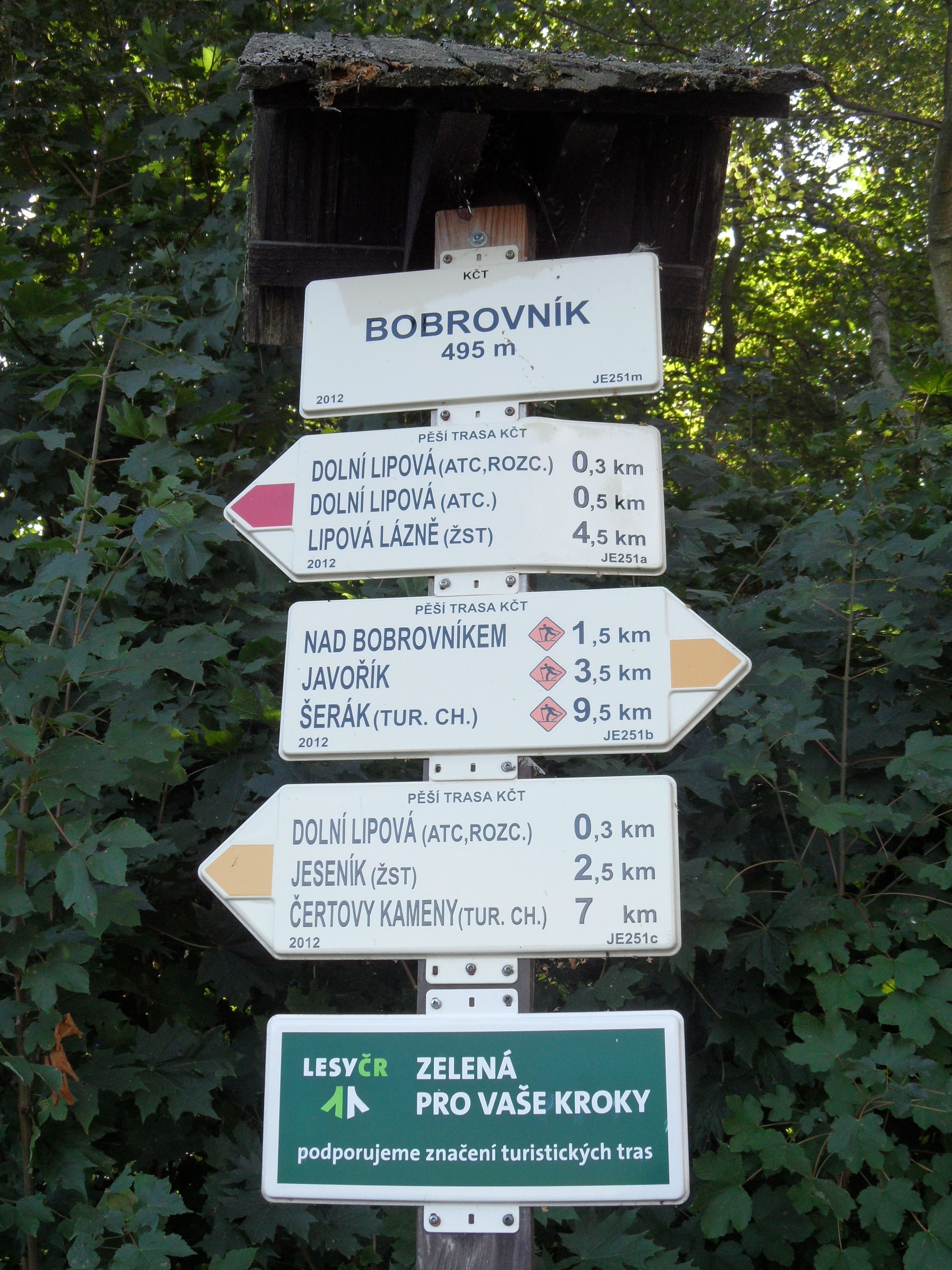 Bobrovník J. Crossroad of Hiking Paths. Jeseník District, the Czech Republic.